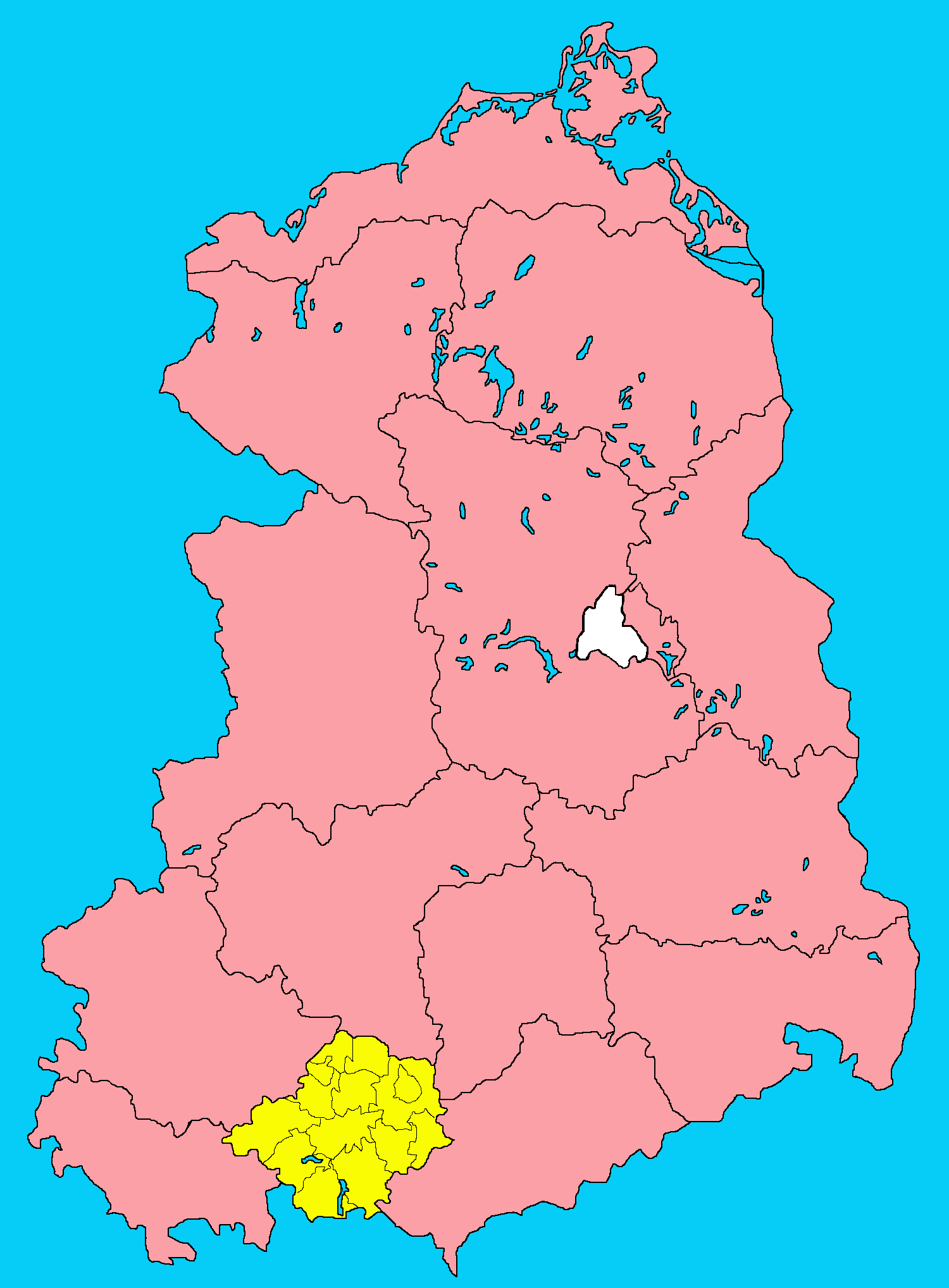 Map of the District of Gera in the German Democratic Republic (East Germany). The districts existed between 1952 and 1990. All of the district's area belongs now to the Free State of Thuringia.